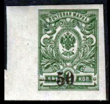 Stamp of the Kuban area, 1918